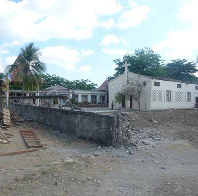 Old church of Viqueque